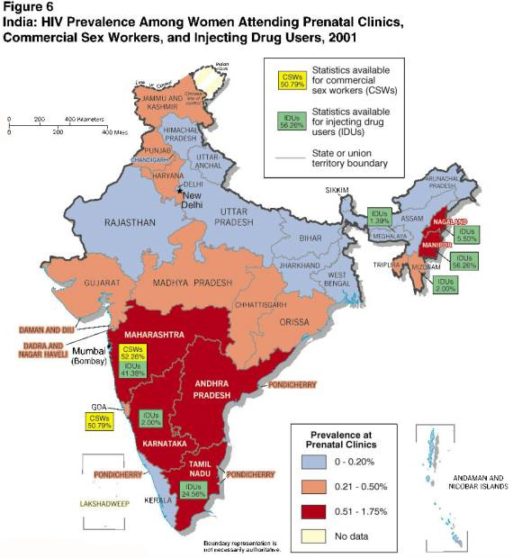 2nd wave HIV at Indian Prenatal Clinics